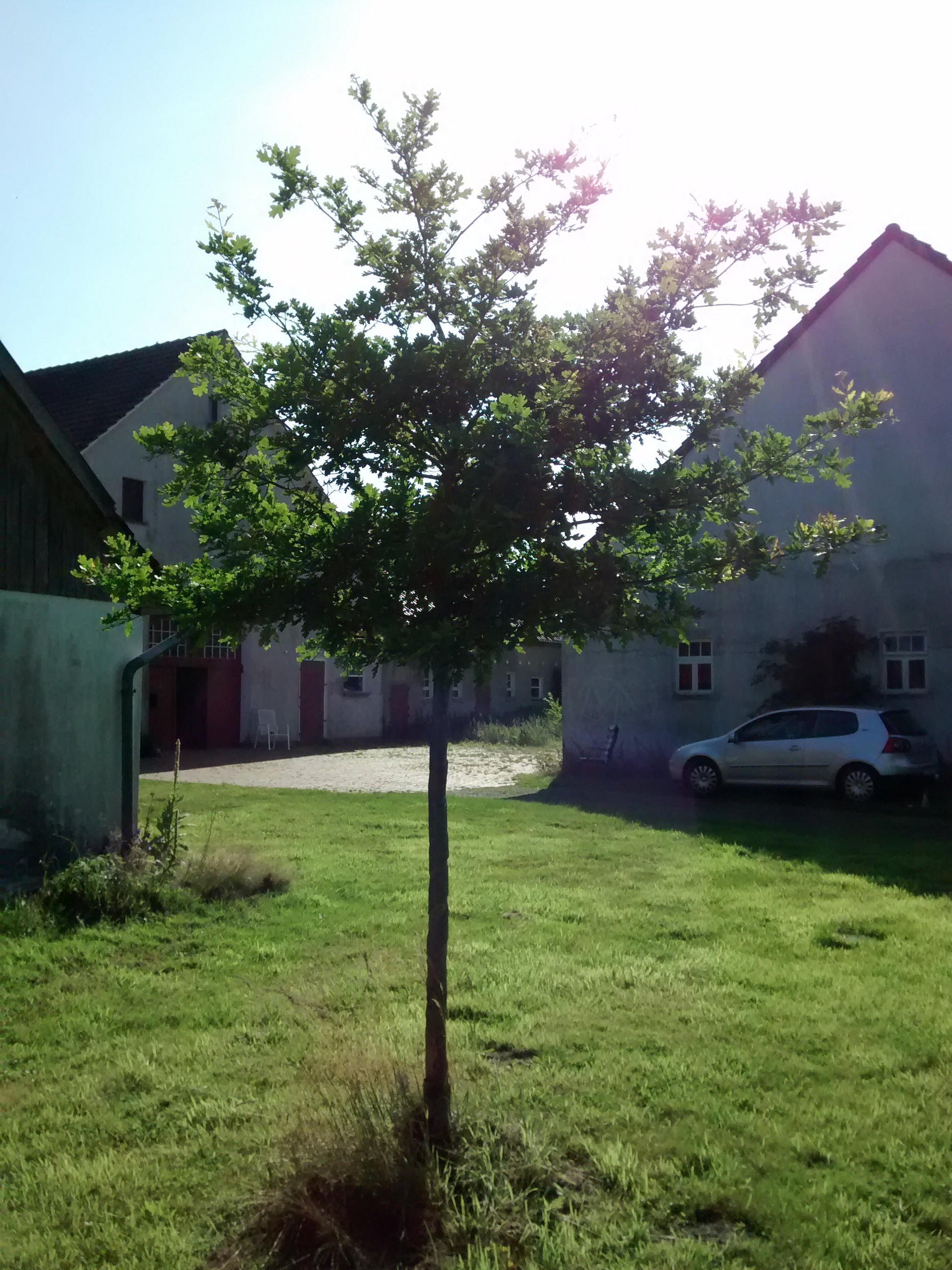 Entstanden bei Mäharbeiten in Twiehausen, Westfalen.